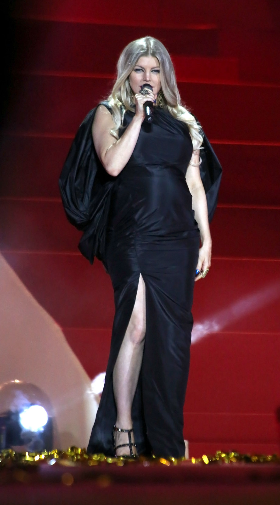 Fergie, representing amfAR, The Foundation for AIDS Research, opening show of Life Ball 2013 at the city hall of Vienna, Vienna, Austria.